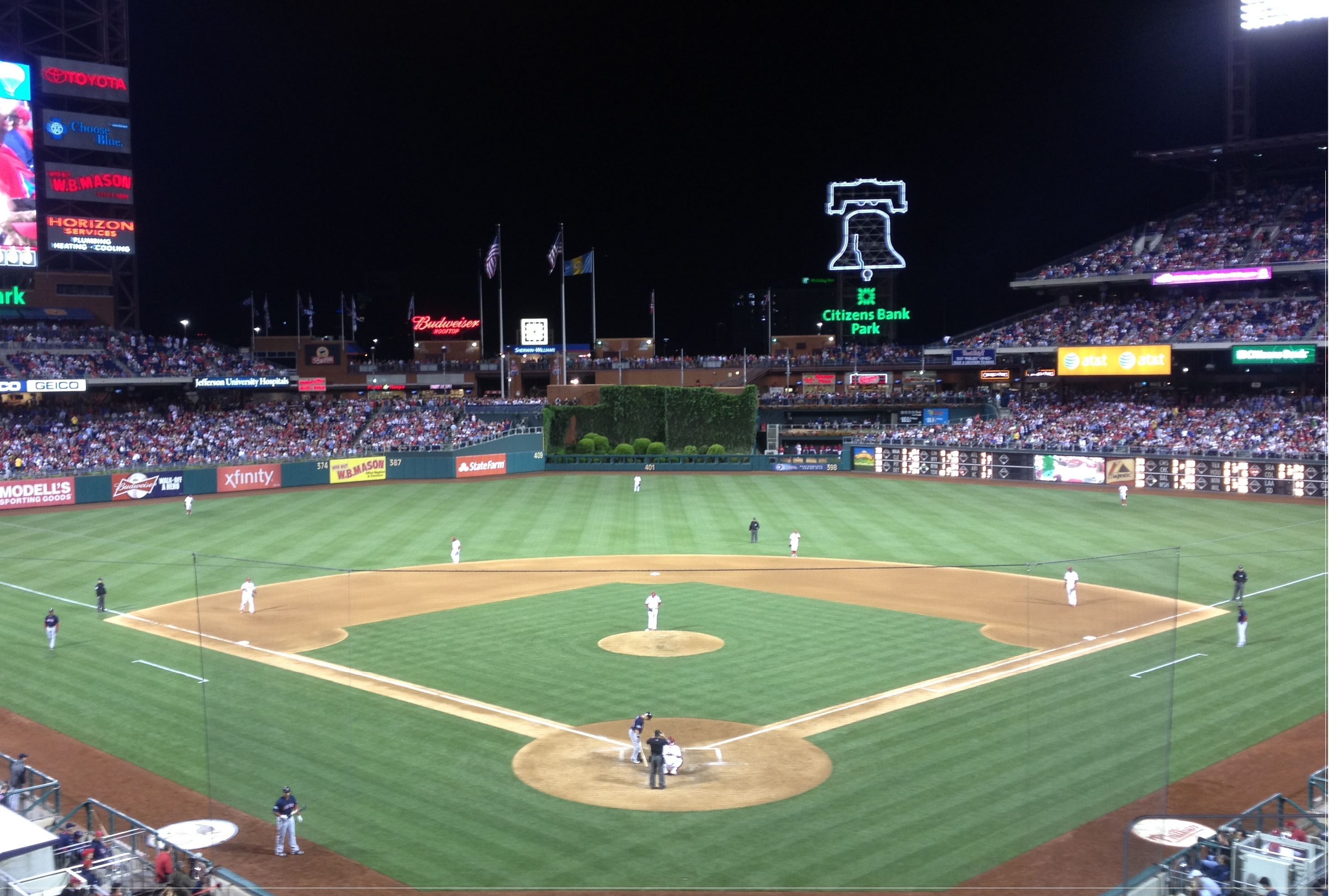 Shows the entire field and background of Citizens Bank Park for the Phillies-Red Sox game on May 18, 2012. Phillies are fielding and the Red Sox are at-bat.